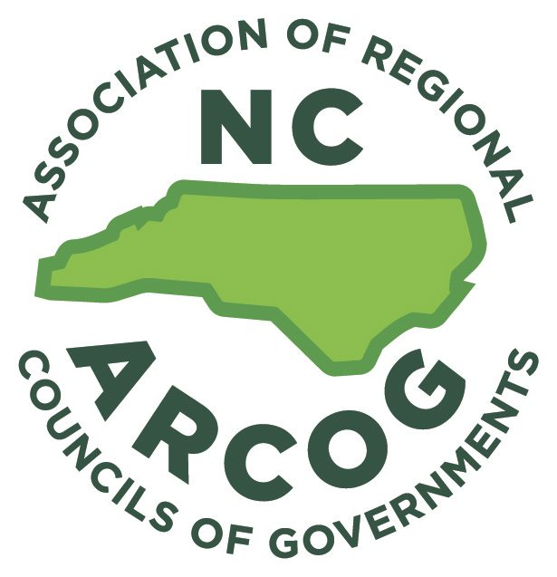 official logo of a state organization